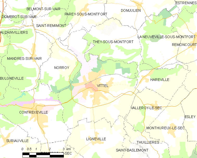 Map of French municipality Vittel